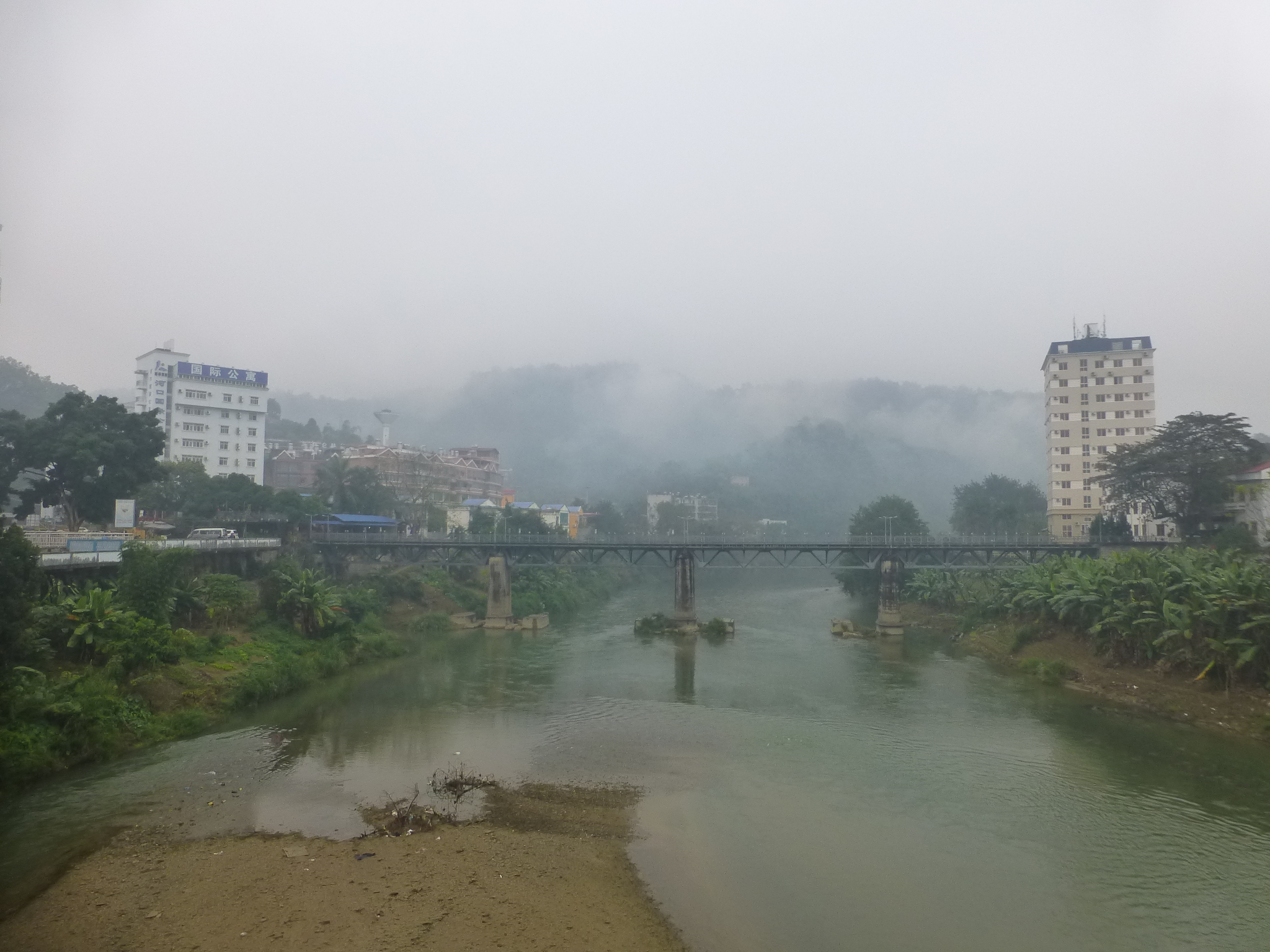 The bridge across the Nanxi River, between Hekou (China) and Lao Cai (Vietnam) on the Vietnam-Yunnan Railway.